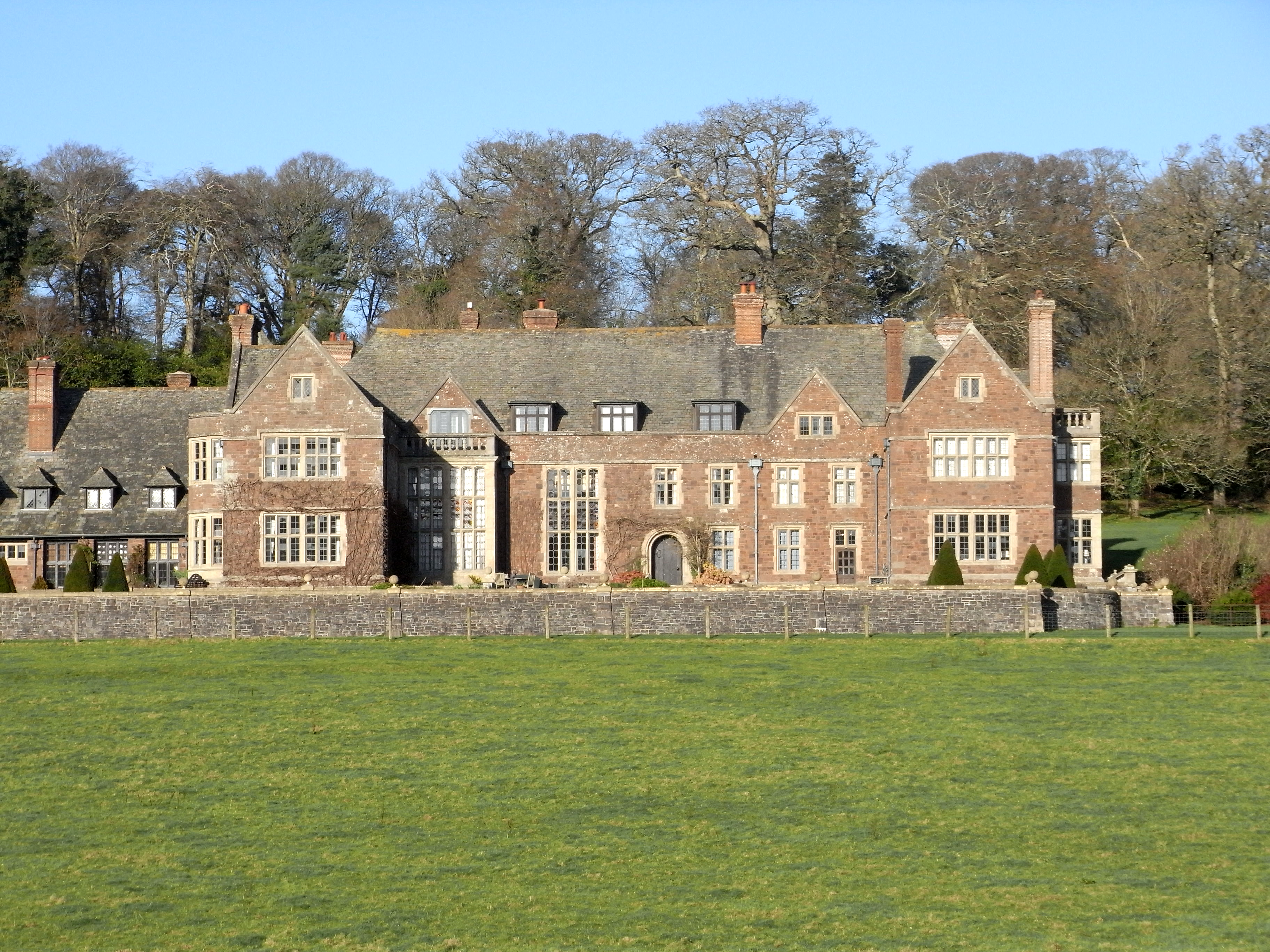 Creedy House, Sandford, Devon. South front. Rebuilt 1916-21 after the previous house was destroyed by fire.